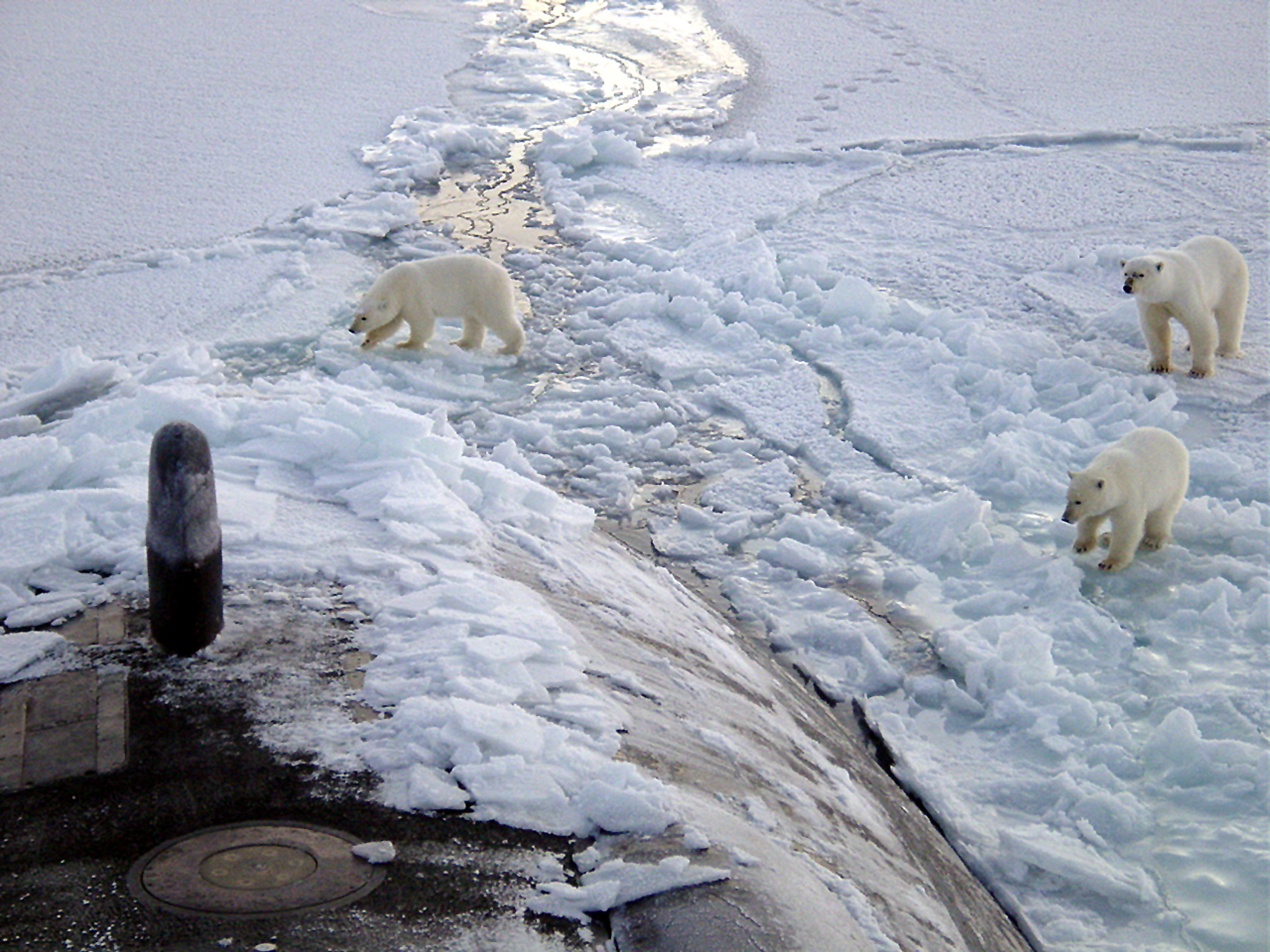 Three Polar bears approach the starboard bow of the Los Angeles-class fast attack submarine USS Honolulu (SSN 718) while surfaced 280 miles from the North Pole. Sighted by a lookout from the bridge (sail) of the submarine, the bears investigated the boat for almost 2 hours before leaving. Commanded by Cmdr. Charles Harris, USS Honolulu while conducting otherwise classified operations in the Arctic, collected scientific data and water samples for U.S. and Canadian Universities as part of an agreement with the Arctic Submarine Laboratory (ASL) and the National Science Foundation (NSF). USS Honolulu is the 24th Los Angeles-class submarine, and the first original design in her class to visit the North Pole region. Honolulu is assigned to Commander Submarine Pacific, Submarine Squadron Three, Pearl Harbor, Hawaii.